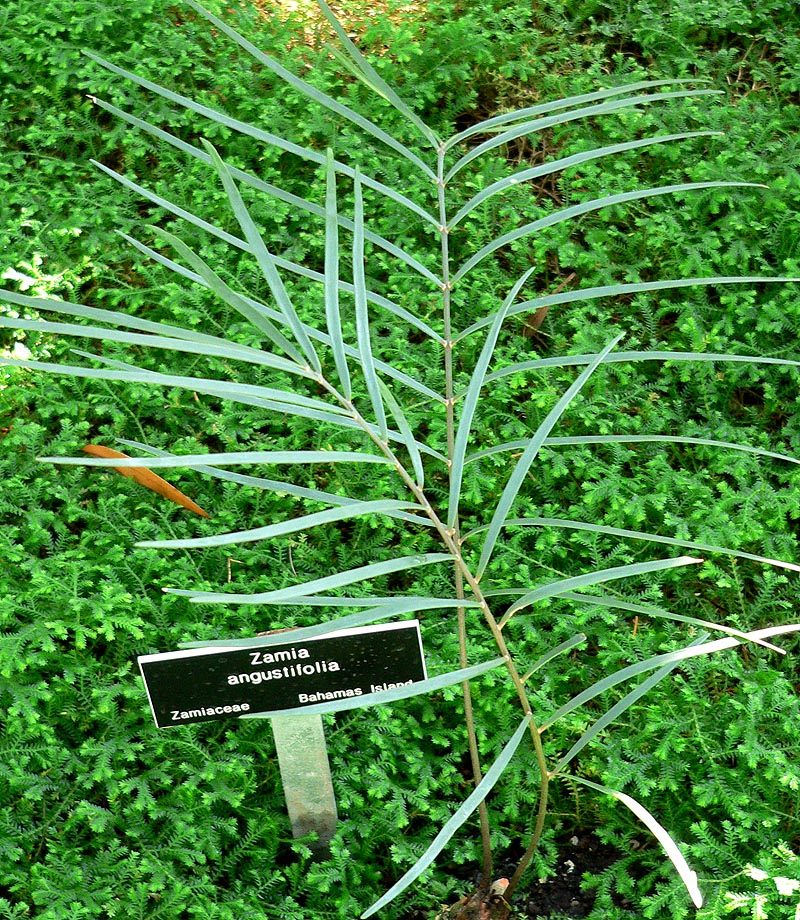 Photo of Zamia angustifolia at Balboa Park